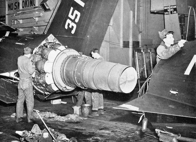 Maintenance on the Pratt & Whitney J48-P-6 engine of a U.S. Navy Grumman F9F-6 Cougar from Composite Squadron VC-61 Det.C "Eyes of the Fleet" aboard the aircraft carrier USS Kearsarge (CVA-33). VC-61 Det.C was assigned to Carrier Air Group 11 (CVG-11) aboard the Kearsarge for a deployment to the Western Pacific from 7 October 1954 to 12 May 1955.